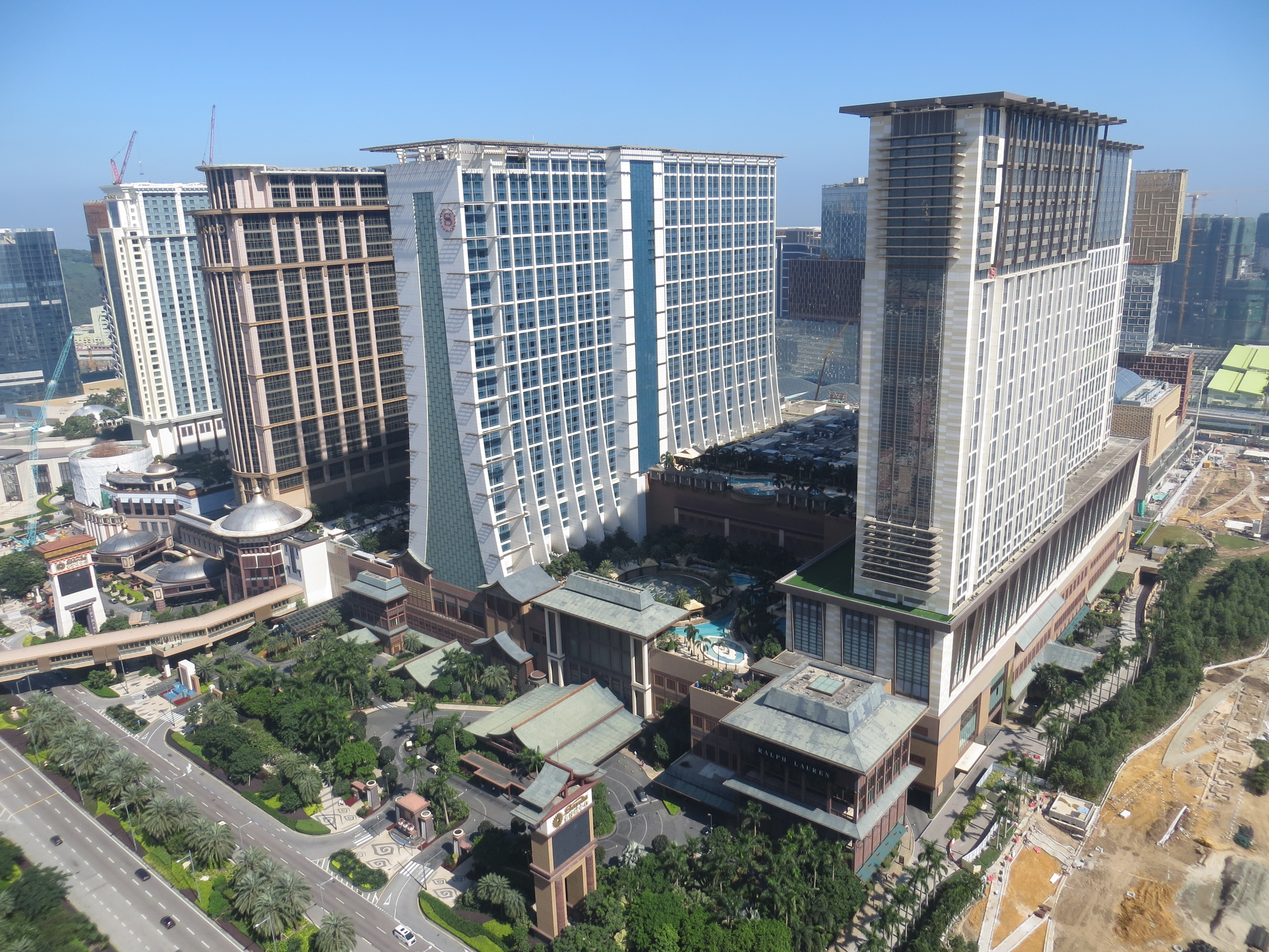 All four towers of Sands Cotai Central